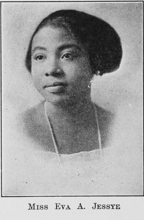 Miss Eva A Jessye from a 1923 publication